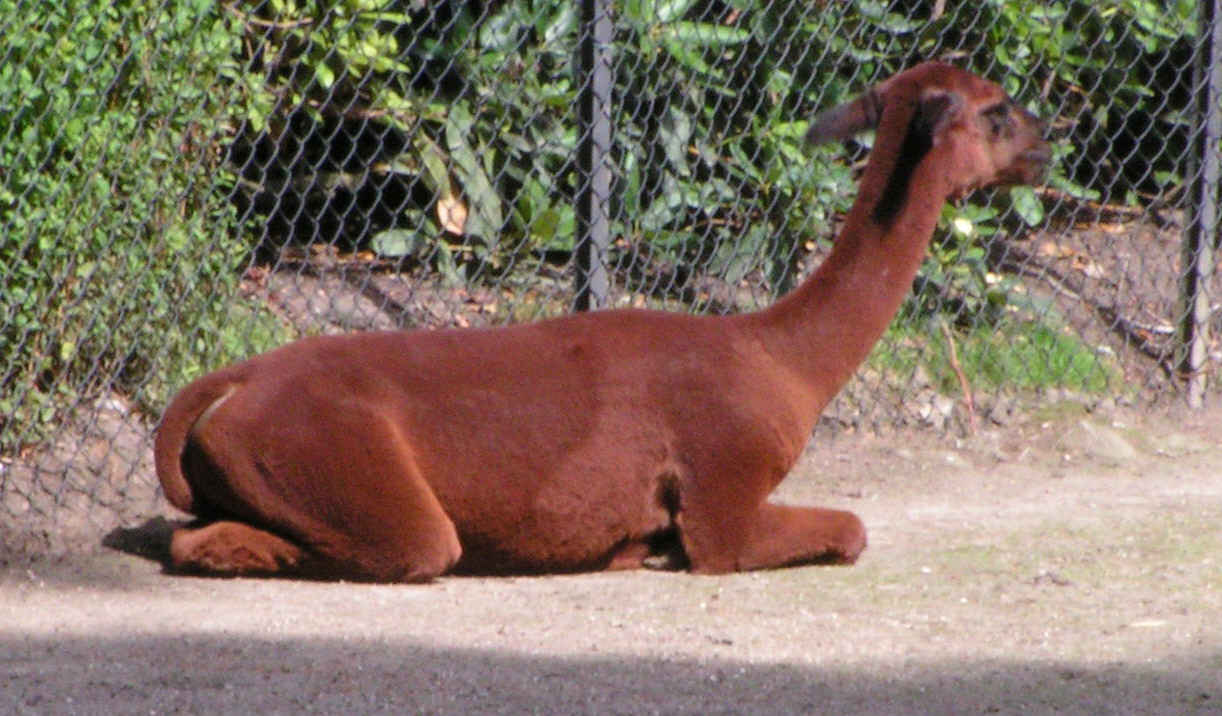 Vicugna at Hagenbecks Tierpark, Hamburg